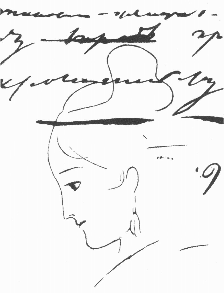 Anna Petrovna Kern, by Russian poet Alexander Pushkin (1799-1837)